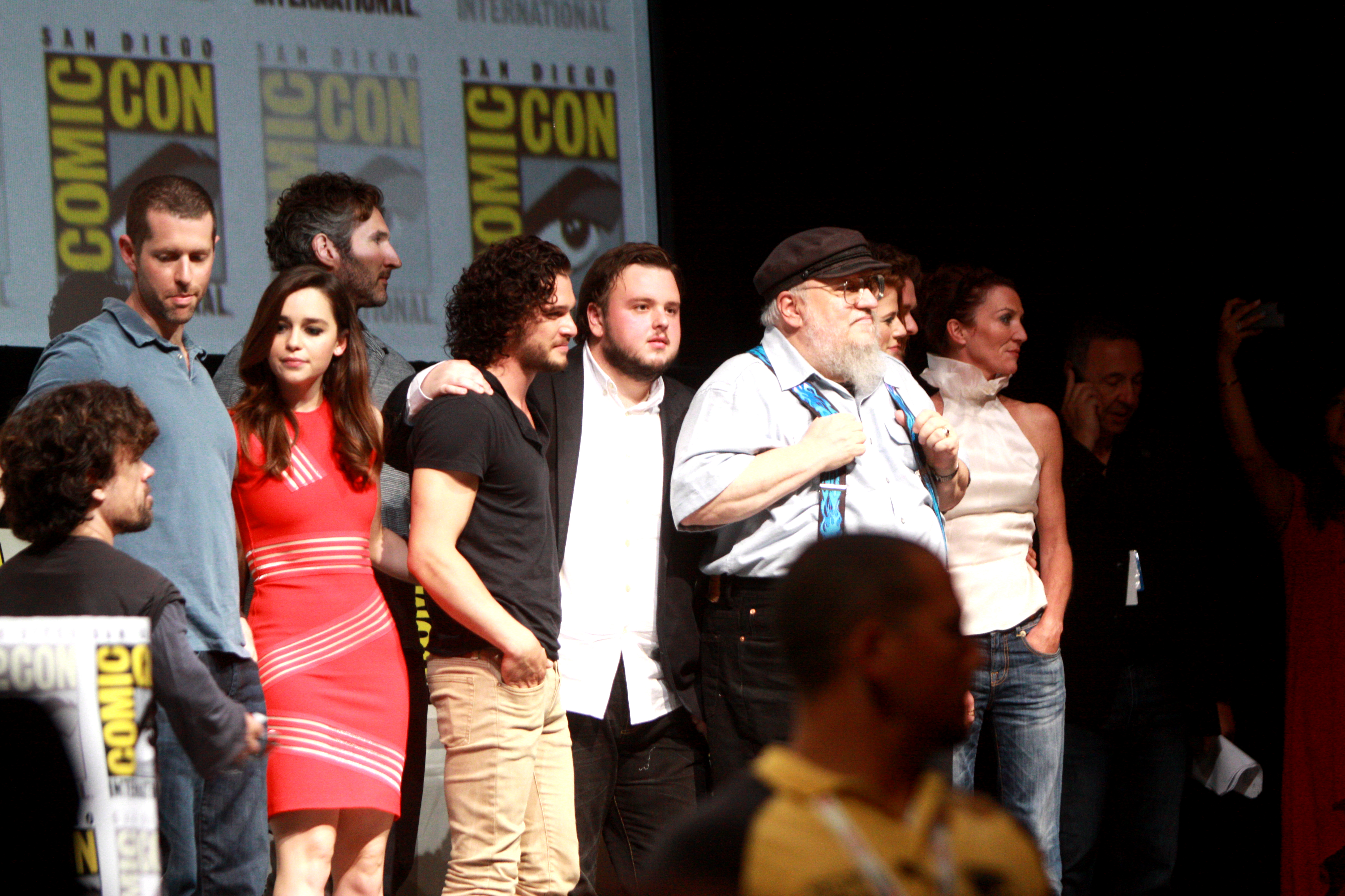 The cast of Game of Thrones at the 2013 San Diego Comic Con International at the San Diego Convention Center in San Diego, California.